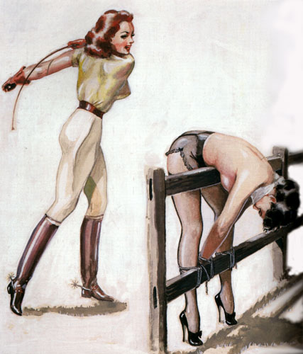 Painting of S/M sexuality